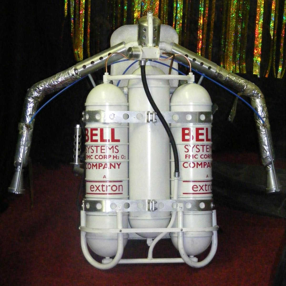 Bell Rocket Belt from the Thunderball, James Bond 007 Museum.